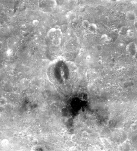 Buys-Ballot crater and environs